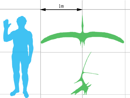 Size of the pterosaur Nyctosaurus (green) compared with a human.